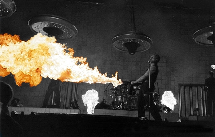 Rammstein's singer Till Lindemann with a flamethrower.